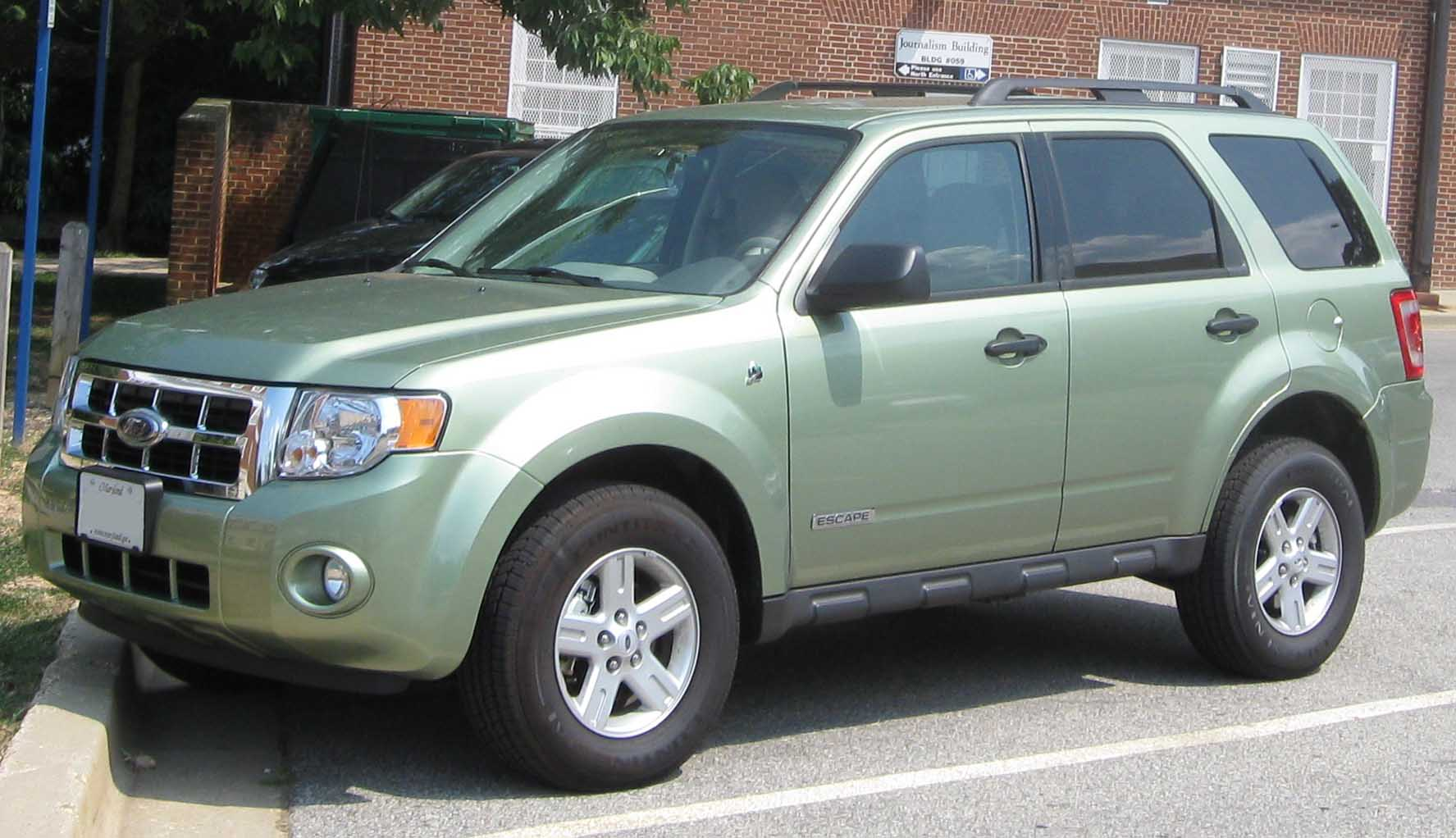 2008 Ford Escape Hybrid photographed in College Park, Maryland, USA.